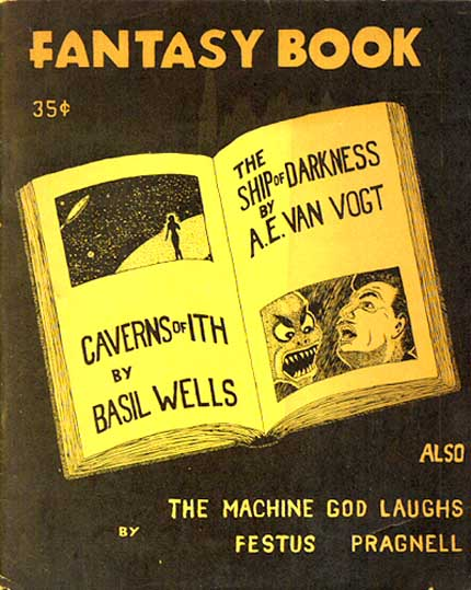 Cover, Fantasy Book, v1n2 (deluxe)